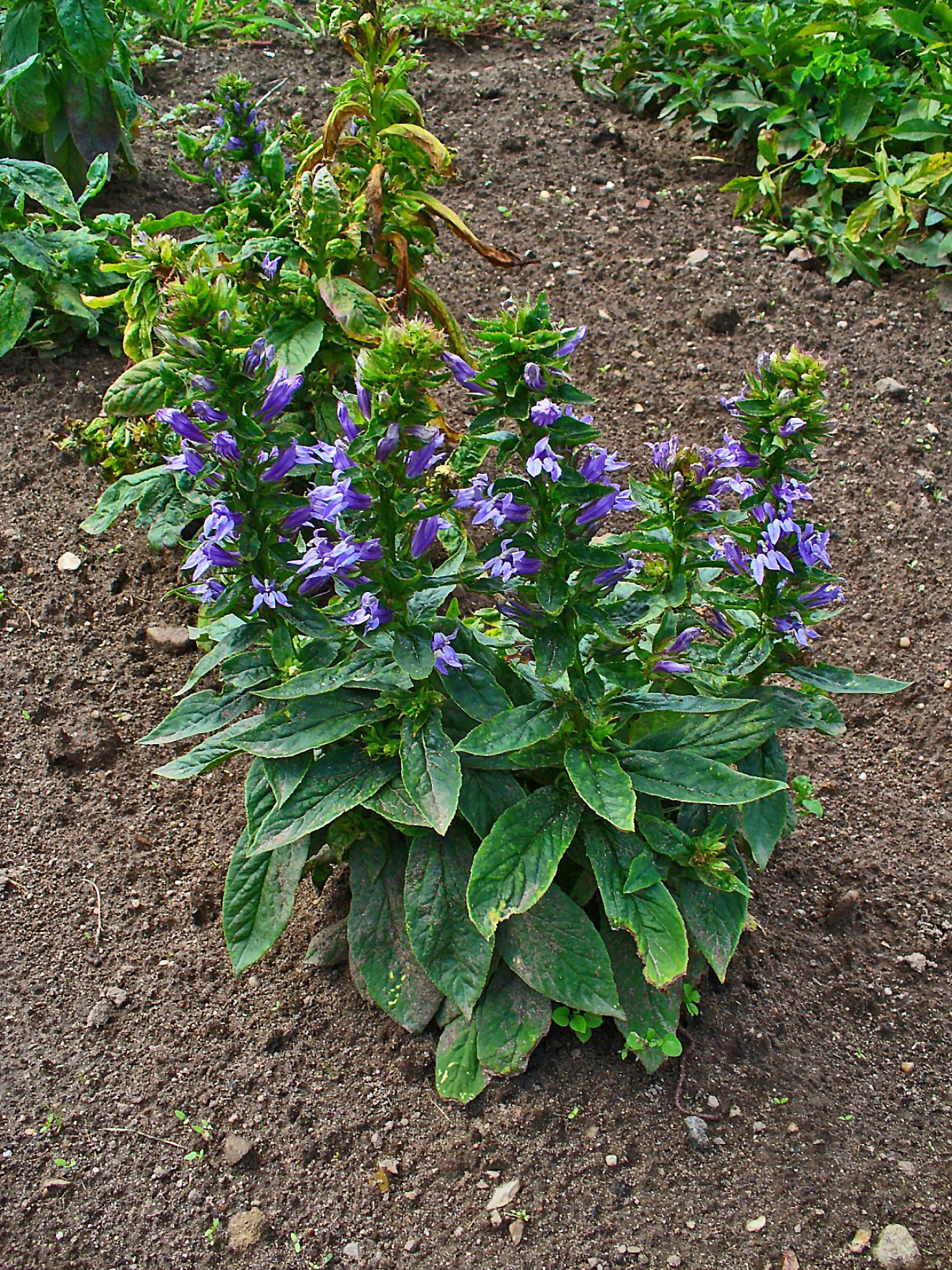 Lobelia siphilitica, Campanulaceae, Great Blue Lobelia, habitus. The whole, fresh plant is used in homeopathy as remedy: Lobelia siphilitica (Lob-s.)